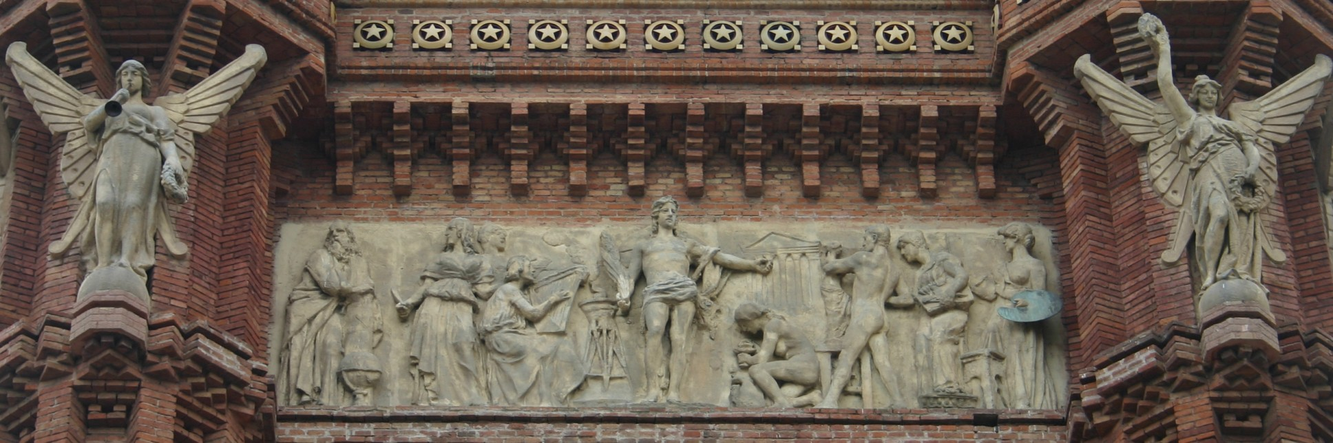 Triumphal Arch relief by Torquat Tasso Author: Year of the dragon